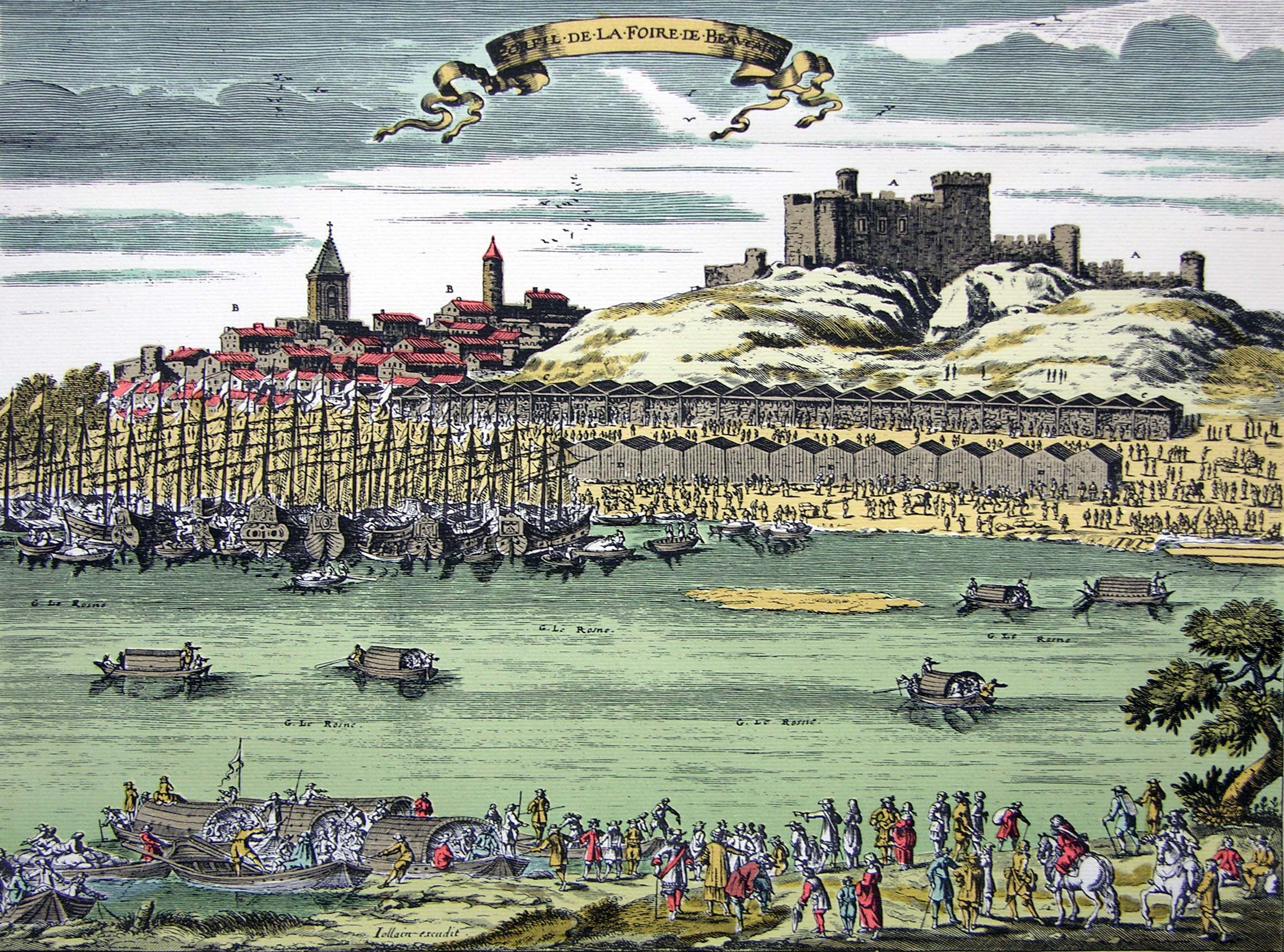 Fair of Beaucaire colored engraving XVIIIe